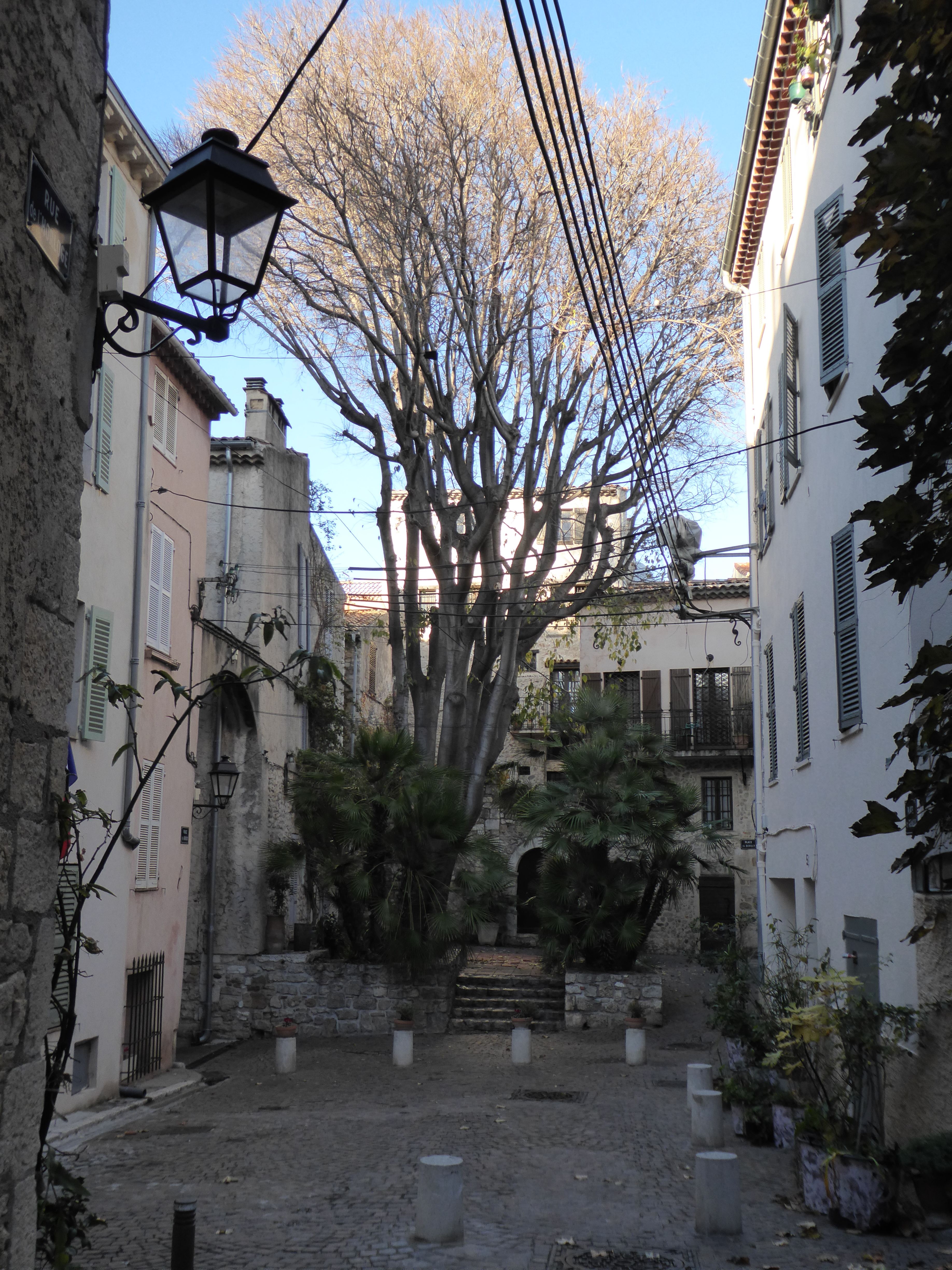 Place du Revely (Antibes)